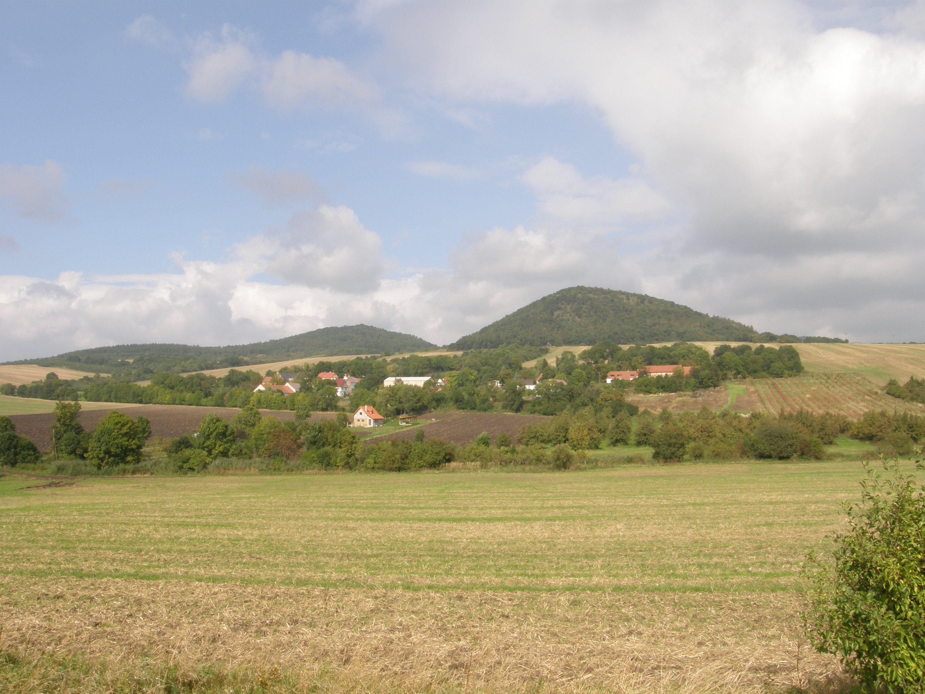 Lahovice, part of Libčeves, view from the main road